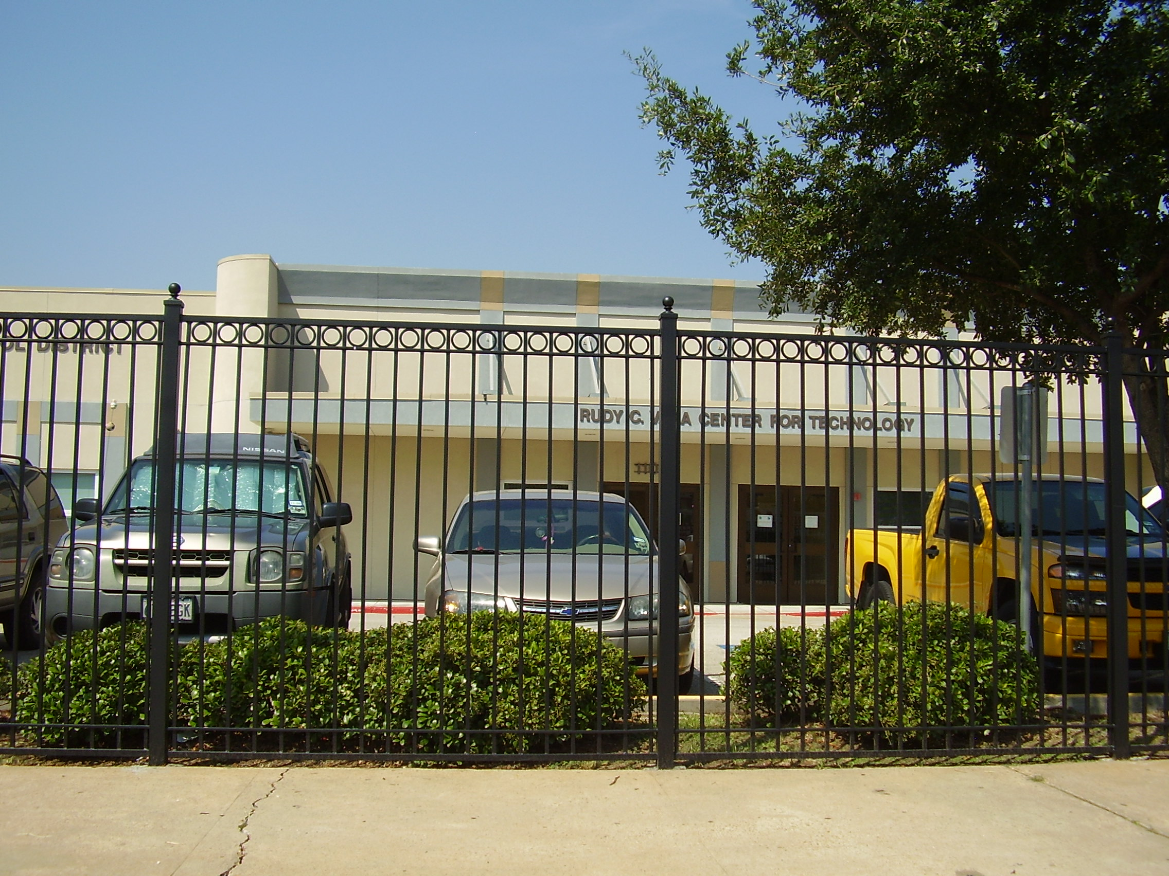 Rudy C. Vara Center for Technology (East Skill Center)